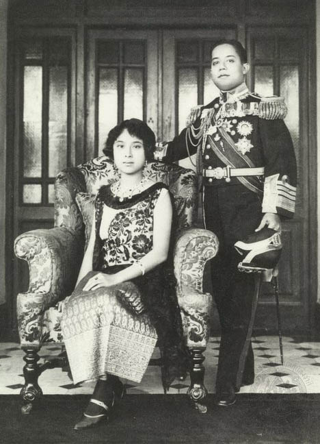 Asdang Dejavudh, Prince of Nakhon Ratchasima and Paew Suddhiburana (later Lady Snidvongseni), his wife.